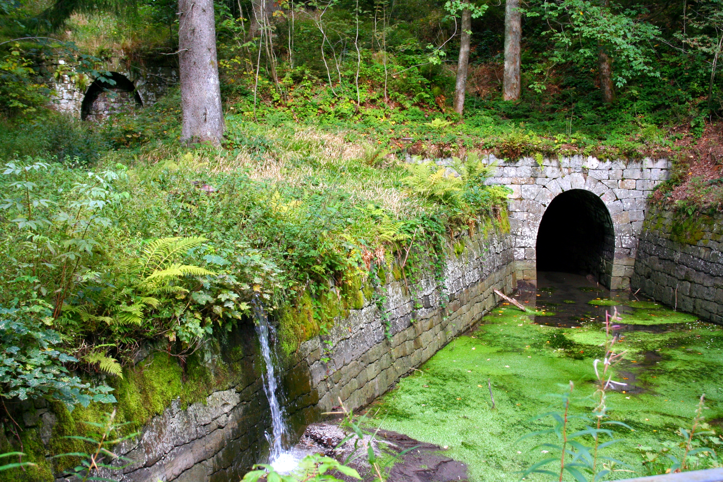 World Cultural Heritage "Oberharzer Wasserregal", Hutthaler Widerwaage, Clausthal-Zellerfeld, Germany